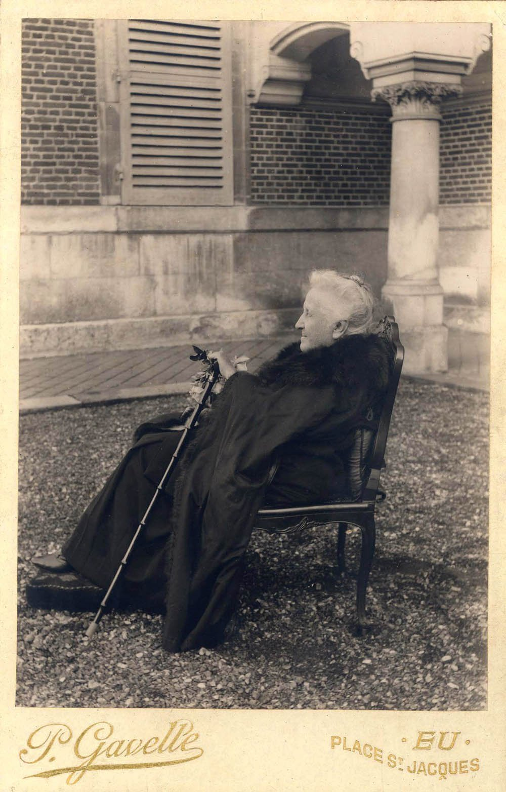 Isabel I (1846-1921), Empress "de jure" of Brazil in her last year of life.